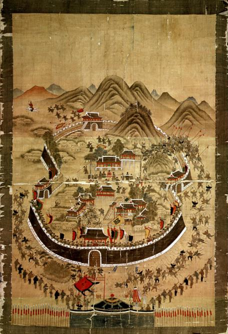 Title: "ë ™ëž˜ë¶€ ìˆœì ˆë „" ("æ ±è Šåºœæ®‰ç¯€åœ–"), transliteration: "Dong Rae Bu Sun Jaul Do" Author: NA Description: Japanese army sacking the city of Busan during the Japanese invasions of Korea (1592-1598). URL: Rationale: This painting has been designated as the national treasure number 392 since 1963.09.02. It was drawn in the year 1760 AD.[1] Therefore it is not copyrighted.